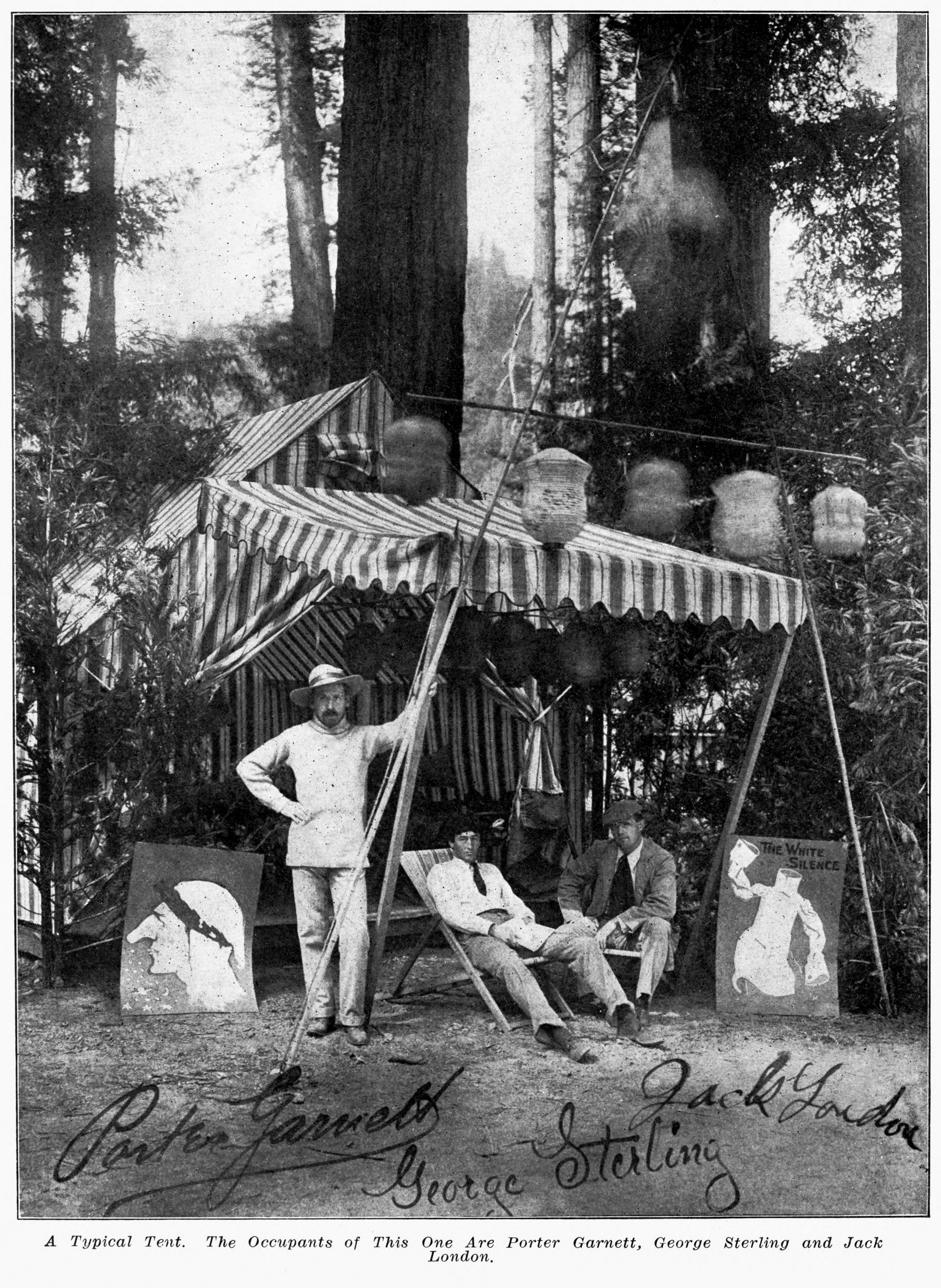 Photograph of a tent at the Bohemian Grove in July 1904, '05, '06 or '07, picturing occupants Porter Garnett, George Sterling and Jack London. Published in The Pacific Monthly by Porter Garnett in his story "Forest Festivals of Bohemia" in September 1907.